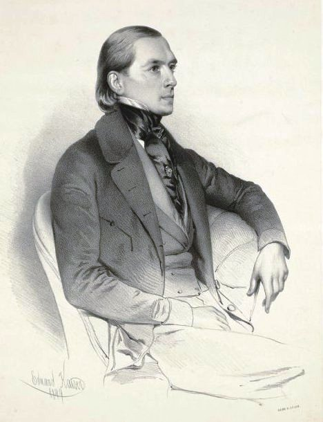 Rudolf Heinrich Willmers (1821-1878), German pianist, music composer and chess composer.